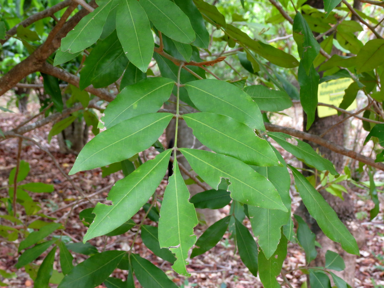 Dimocarpus longan seen in Nilgiri biosphere nature park, anaikatty coimbatore on 4th may 2014.